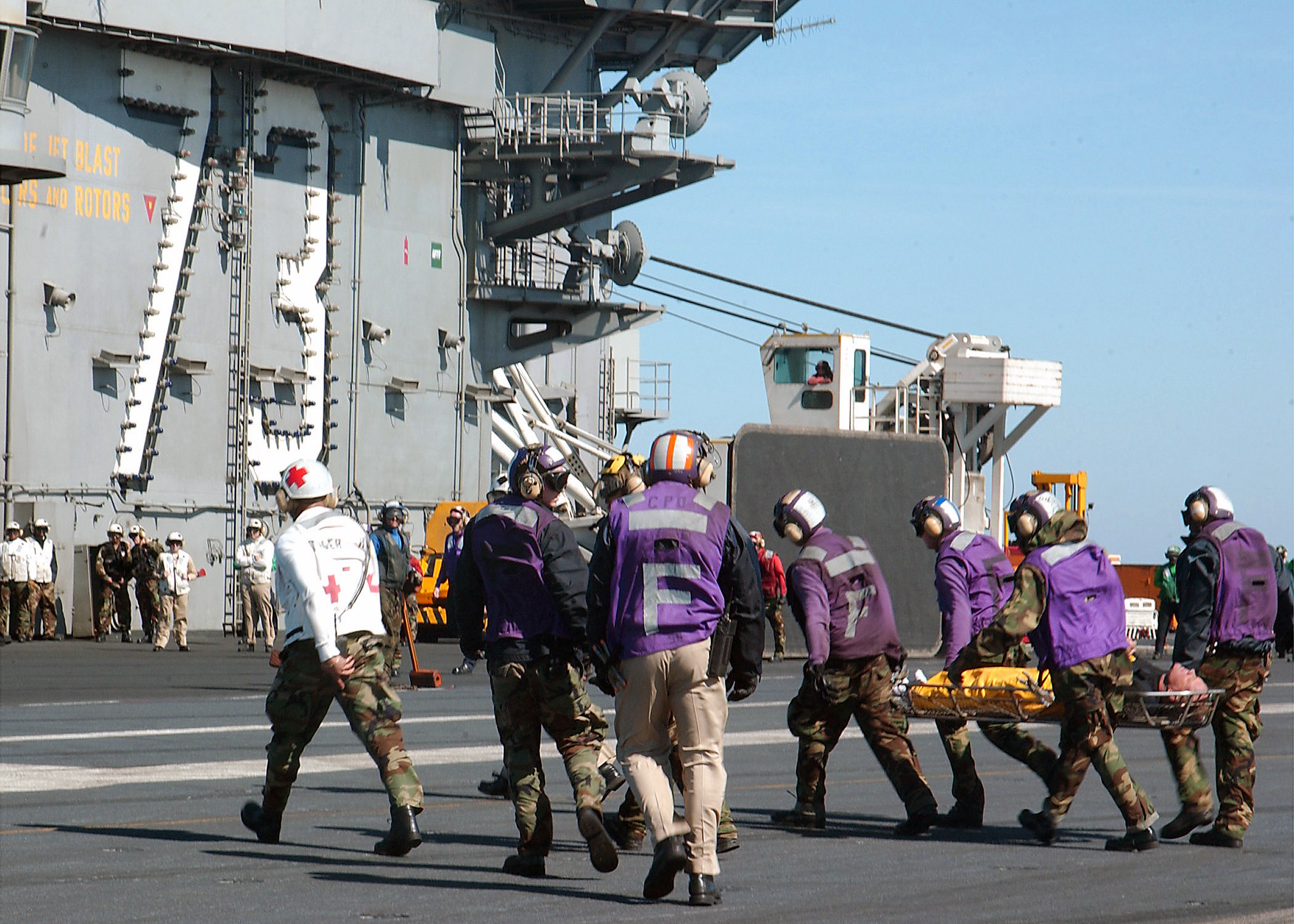 At sea aboard USS George Washington (CVN 73) Feb. 2, 2003 -- Flight deck crewmen and personnel assigned to the ship’s medical department carry injured personnel across the ship’s flight deck after four personnel were rescued from the burning merchant fishing vessel, Diamond Shoal. The fishing boat was off the coast of Jacksonville, Fla., at the time of the incident. Five victims were recovered from the water, with four survivors. Two SH-60F “Sea Hawk” helicopters assigned to the “Emerald Knights” of Reserve Helicopter Anti-Submarine Squadron Seven Five (HS-75) conducted the search and rescue (SAR) operation. The Norfolk, Va.-based aircraft carrier is conducting carrier qualifications and training off the Atlantic coast. U.S. Navy photo by Photographer's Mate Airman Joan Jennings. (RELEASED)